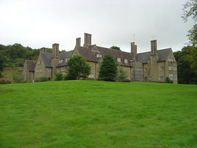 Kildonan House.